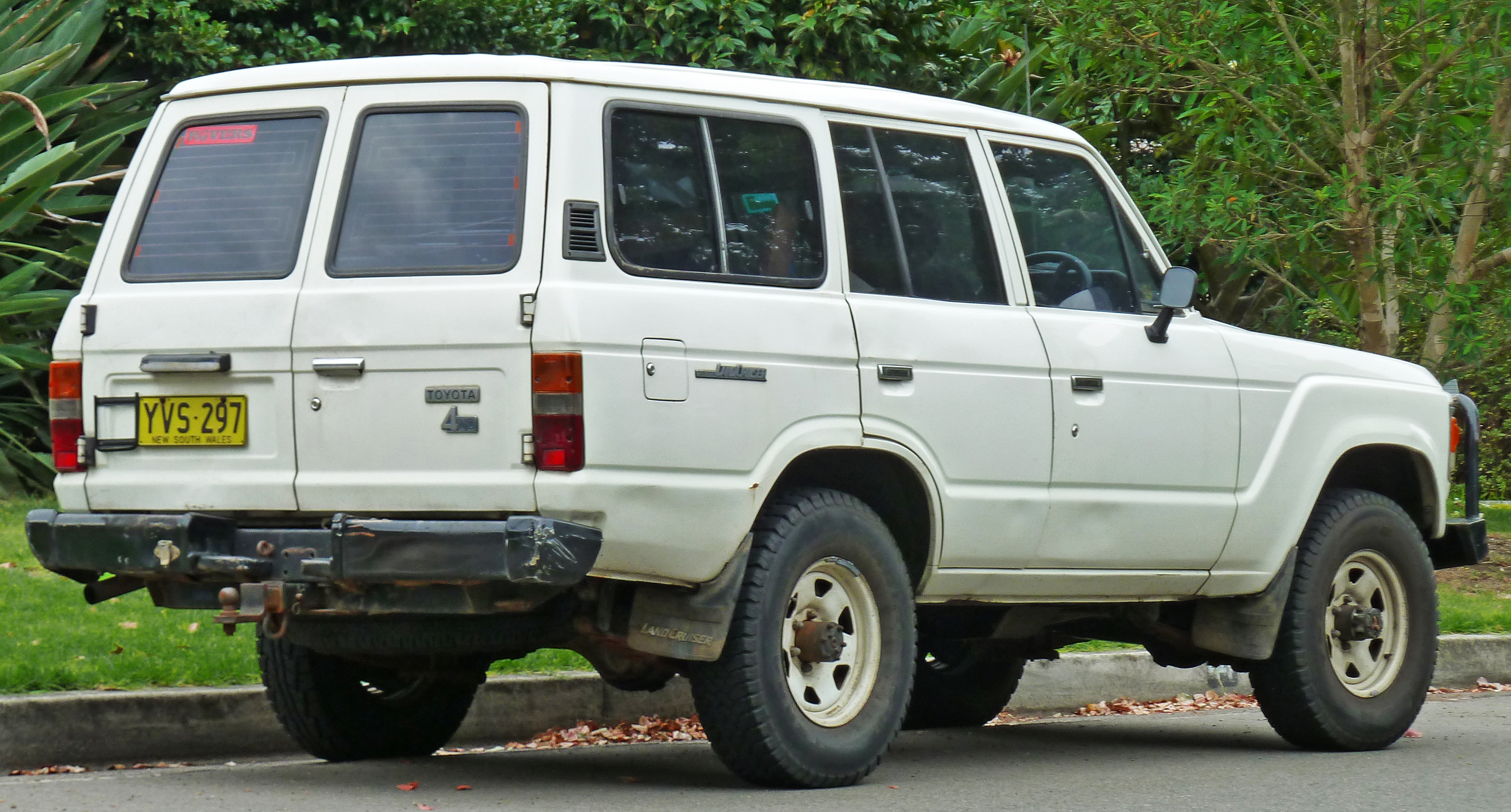 1986 Toyota Land Cruiser (FJ60) wagon. Photographed in Roseville, New South Wales, Australia.